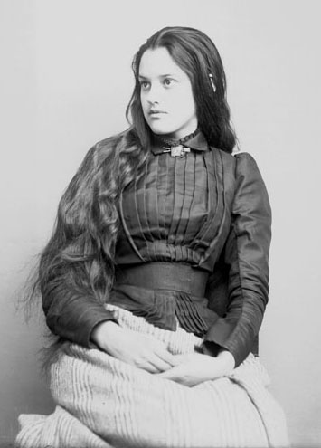 Portrait of Marcia Paschal, daughter Lieutenant Colonel George W. Paschal. She is half-Cherokee.